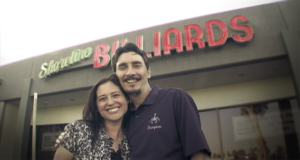 Johnny Archer in 2008 with one of his many devoted fans.